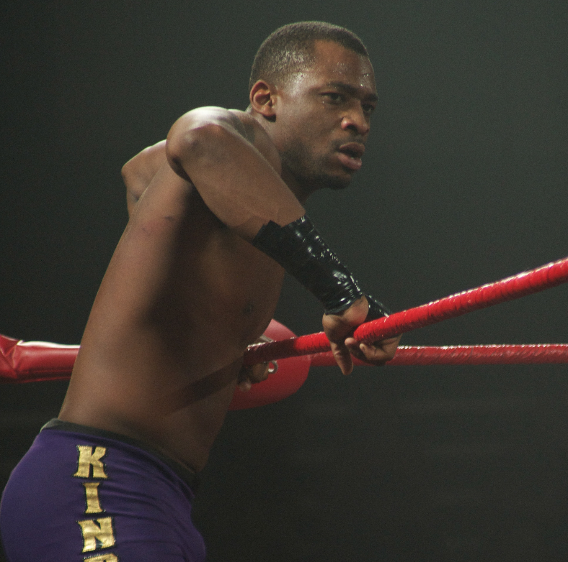 Kenny King standing on the ring apron at a Ring of Honor show in 2011.